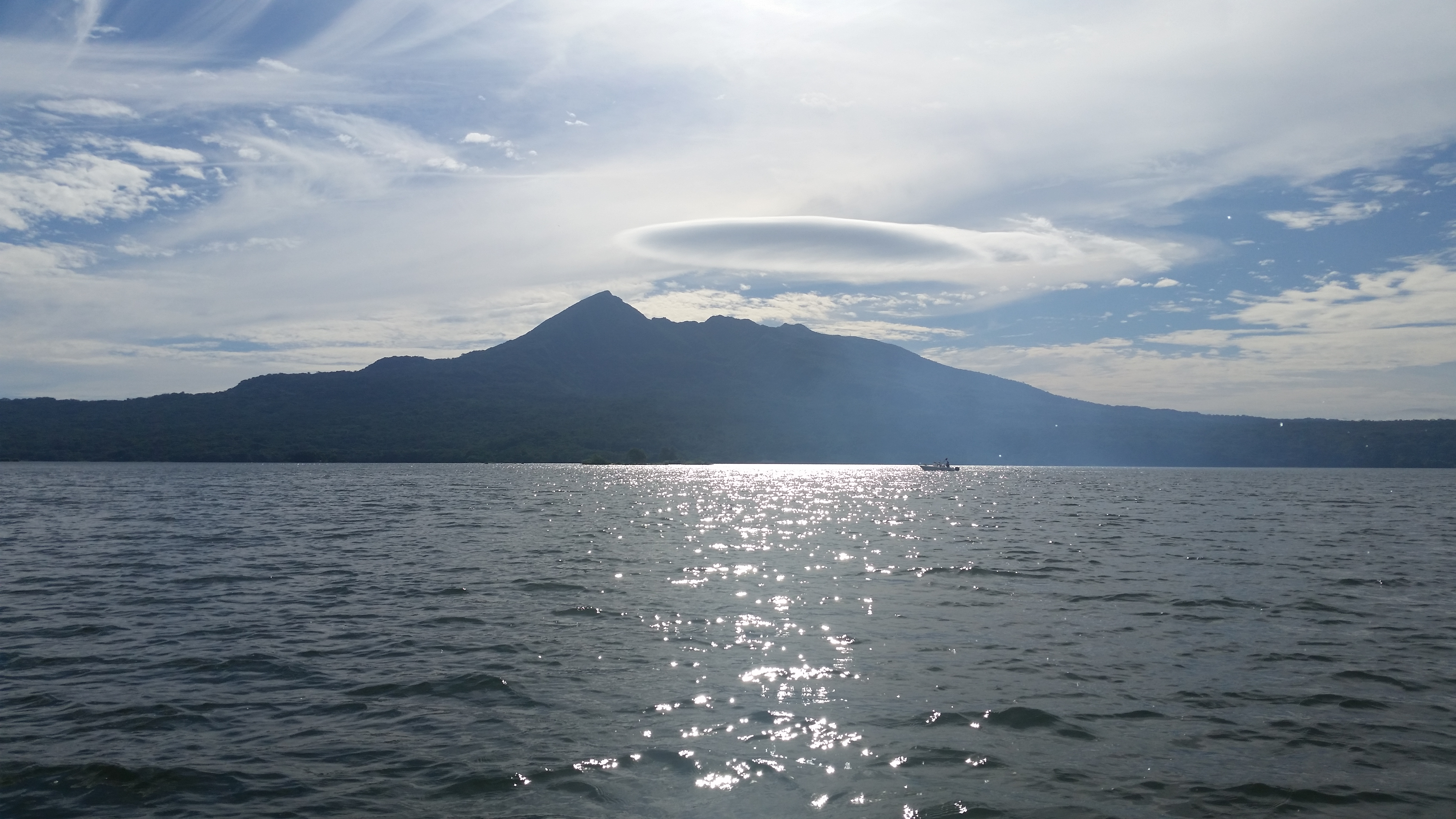 Lenticular cloud over Mombacho Volcano